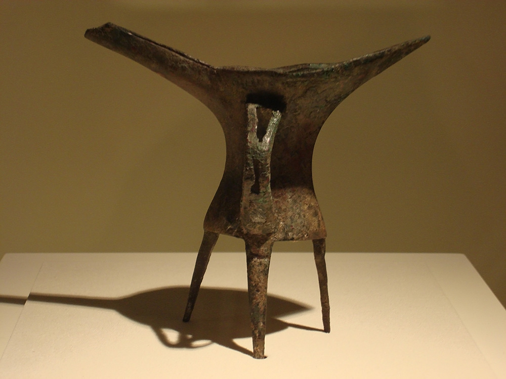 Bronze Jue (wine-drinking vessel) Attributed to the real or mythical Xia Dynasty (2100-1600 B.C.). Erlitou culture, unearthed at Erlitou, Yanshi, Henan Province, 1984